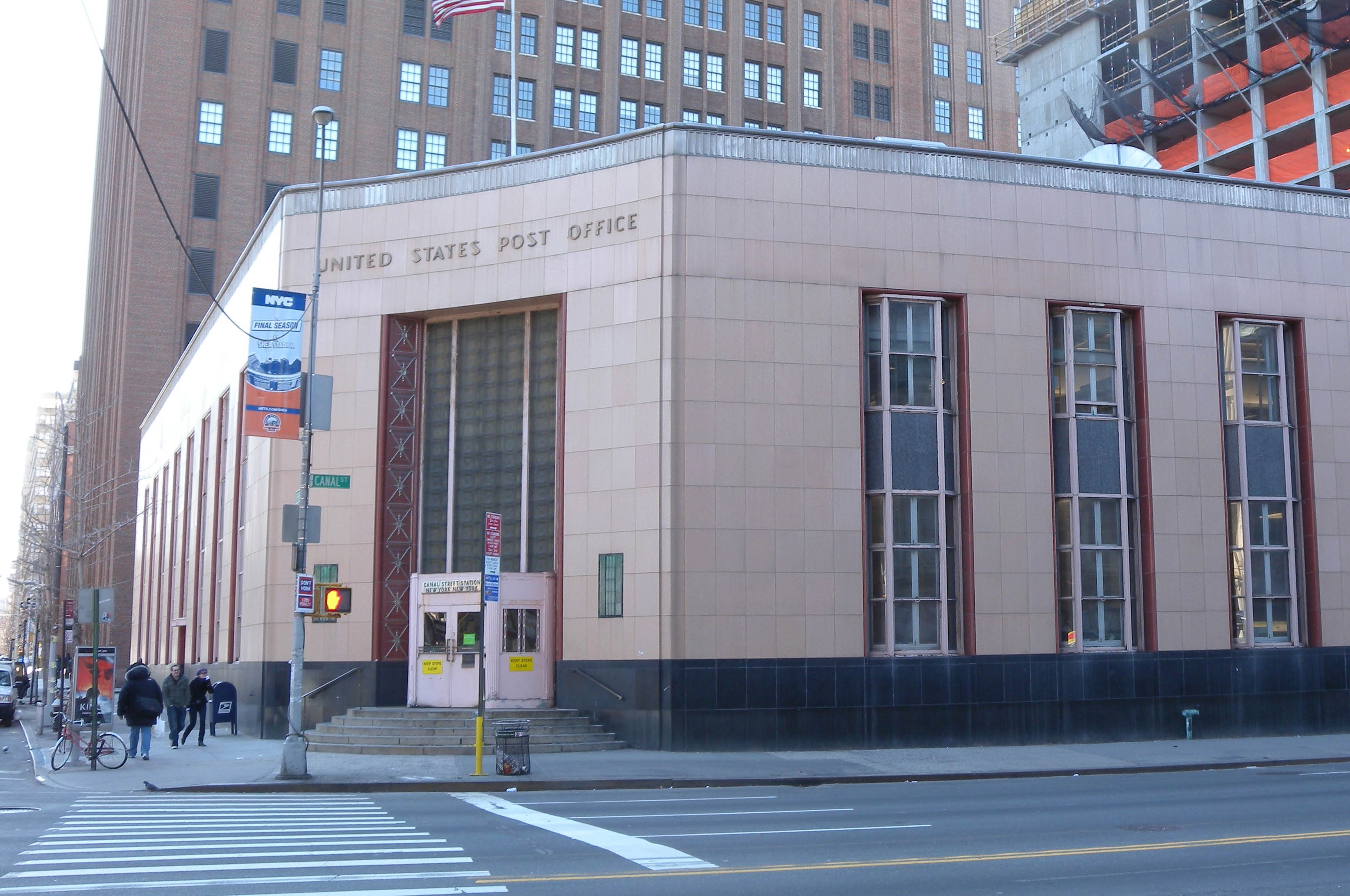 Looking south across Canal and Church Streets at Canal Street Station, USPS on a sunny afternoon. ZIP code 10013. AT&T building File:LD4 ATT 32AA jeh.JPG is in background